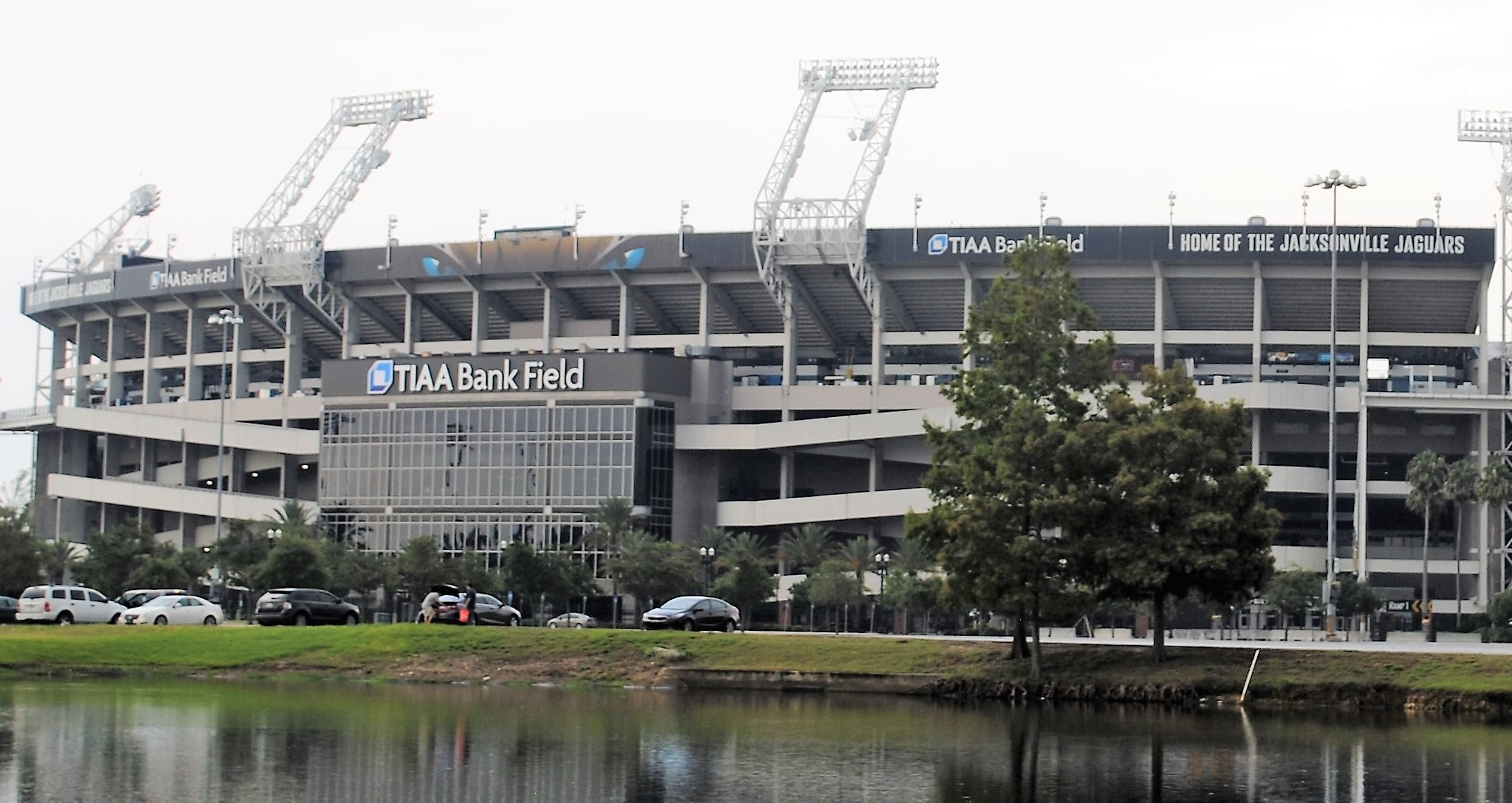 TIAA Bank Field